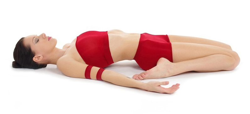 Supta-Virasana by Nina Mel, Yoga Teacher